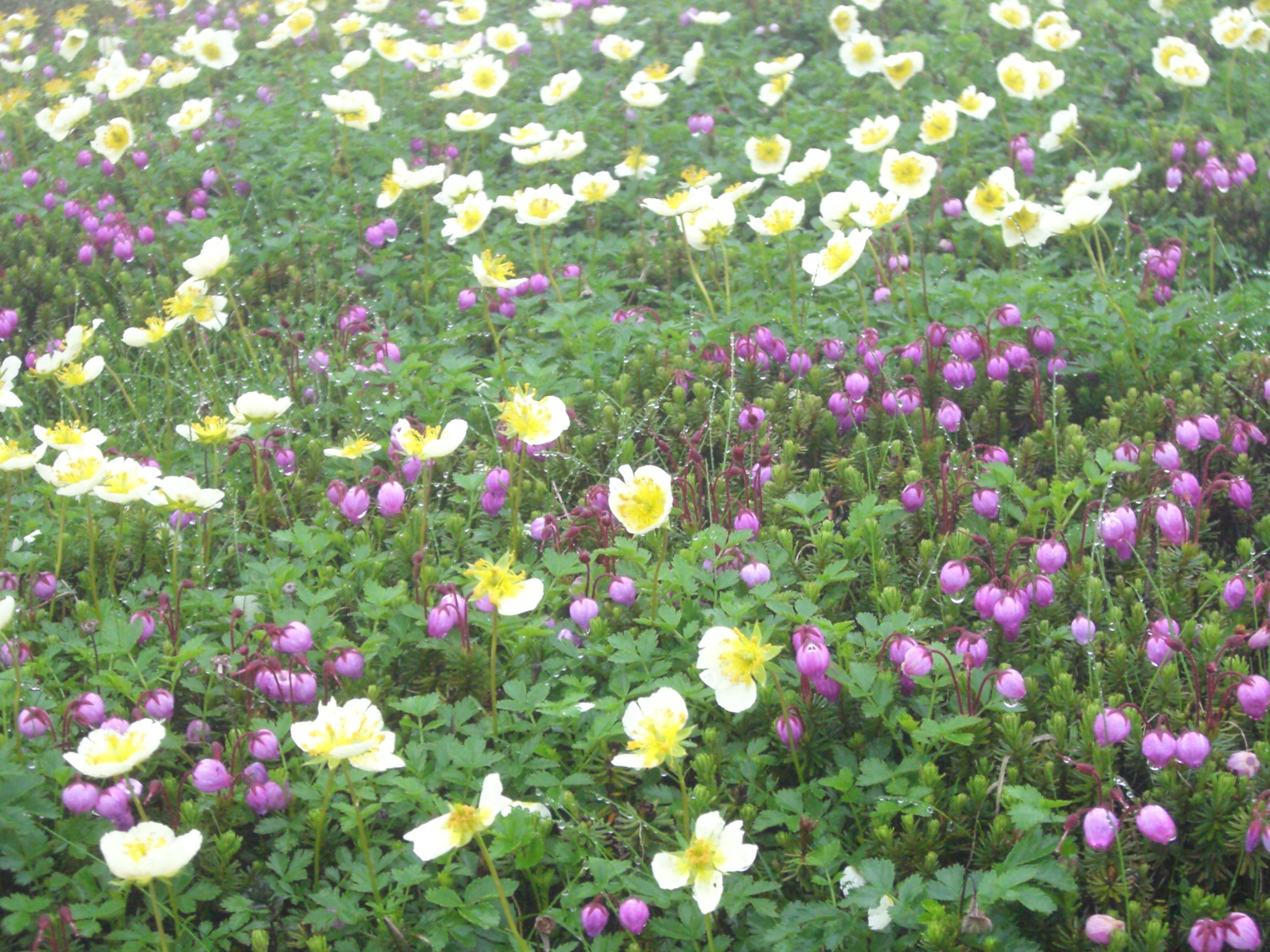 Flowering_meadows_of_Daisetsu-zan 大雪山のお花畑